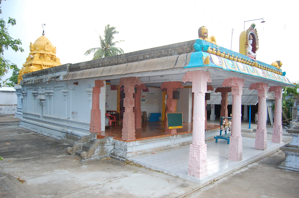 Rishi Vandavasi